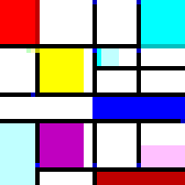 Program in the Piet programming language, printing "Piet"